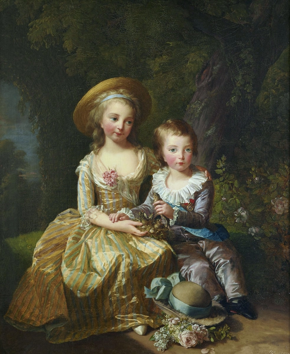 Princess Marie Thérèse Charlotte of France, Madame Royale, and her younger brother Louis Joseph Xavier of France, Dauphin of France, the eldest children of King Louis XVI. of France and Queen Marie Antoinette of France, grandchildren of Empress Maria Theresia of Austria and Holy Roman Emperor Franz I. Stephan of Lorraine.